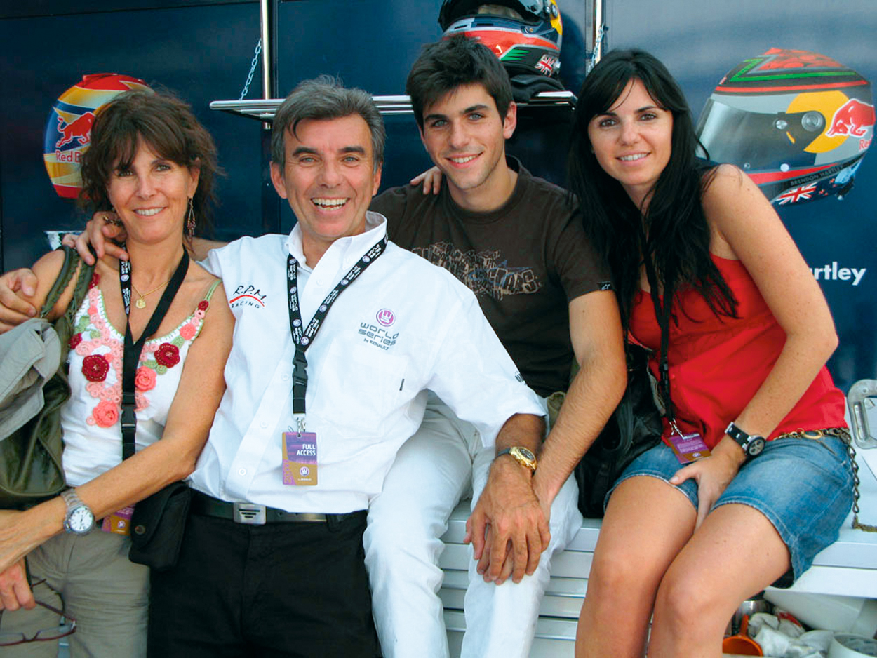 Jaime Alguersuri familia